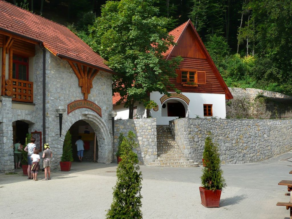 The Hubert Kessler memorial house after reconstruction (Jósvafő, Hungary)